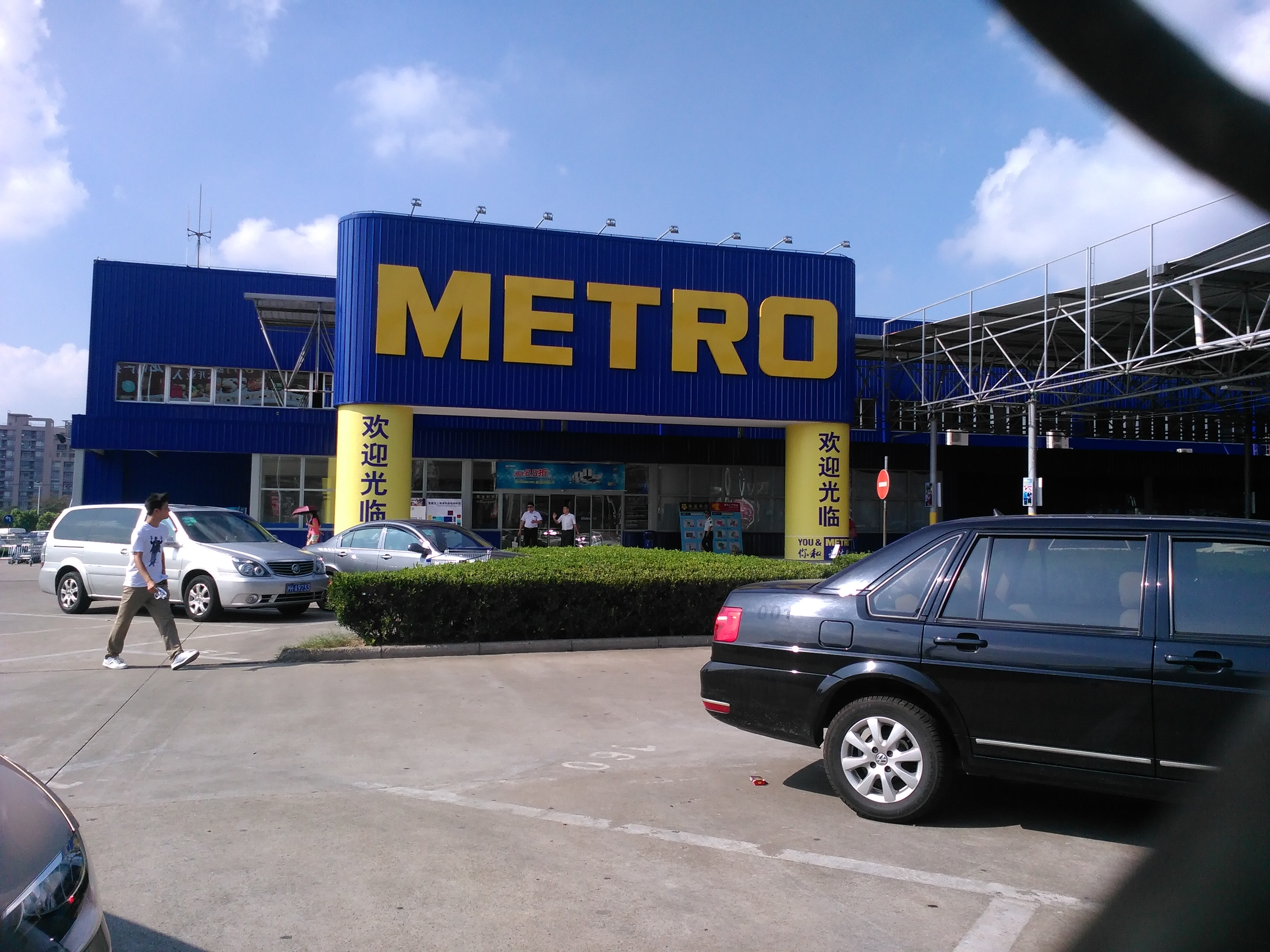 Metro Cash and Carry market in Shanghai (near Shanghai Maglev station)